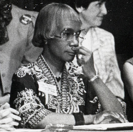 Colorado Democratic Senator Gary Hart at the 1984 Democratic National Convention in San Francisco, California. Photograph by Nancy Wong